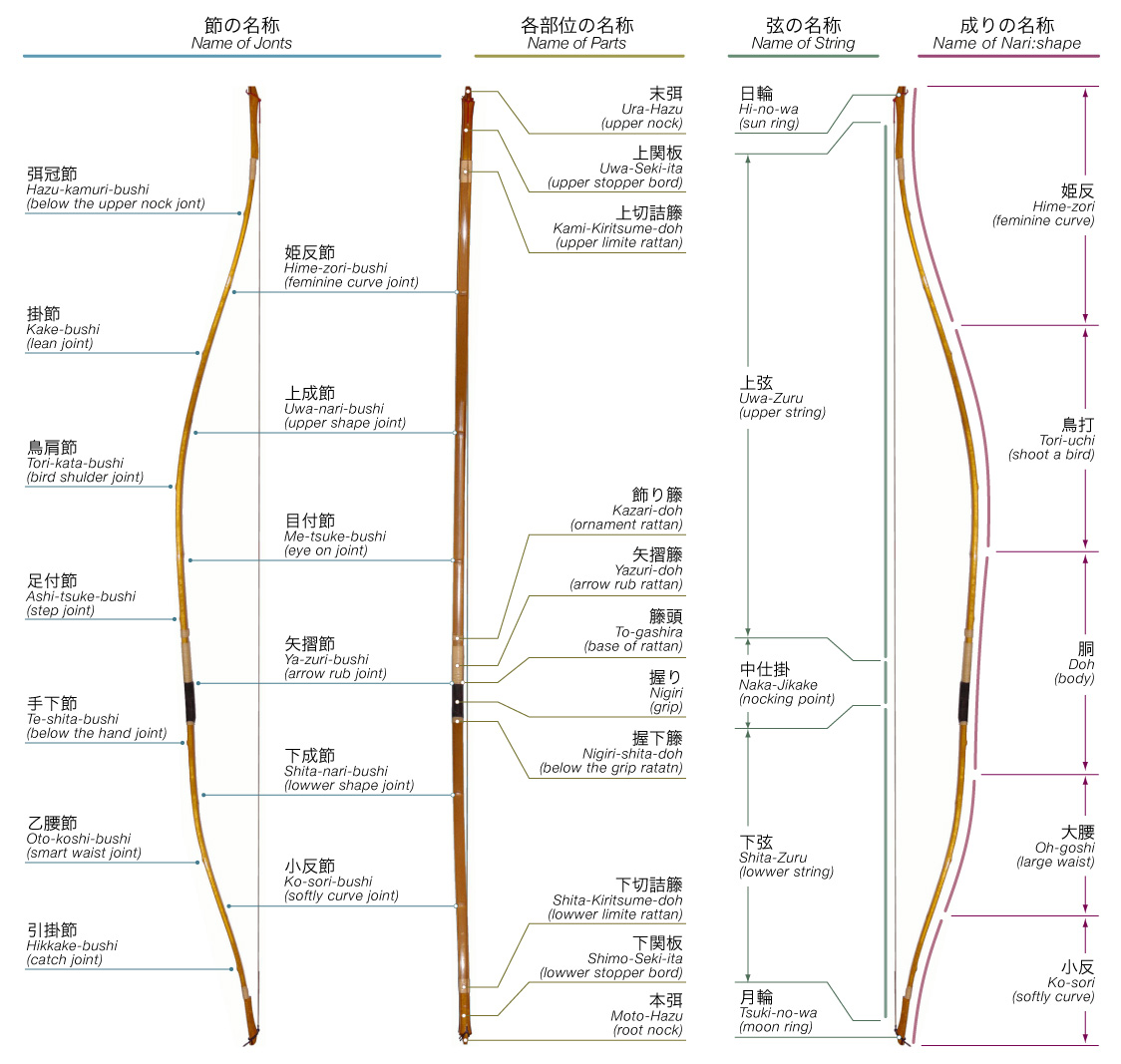 Kyudo Yumi. name of parts. 各部名称